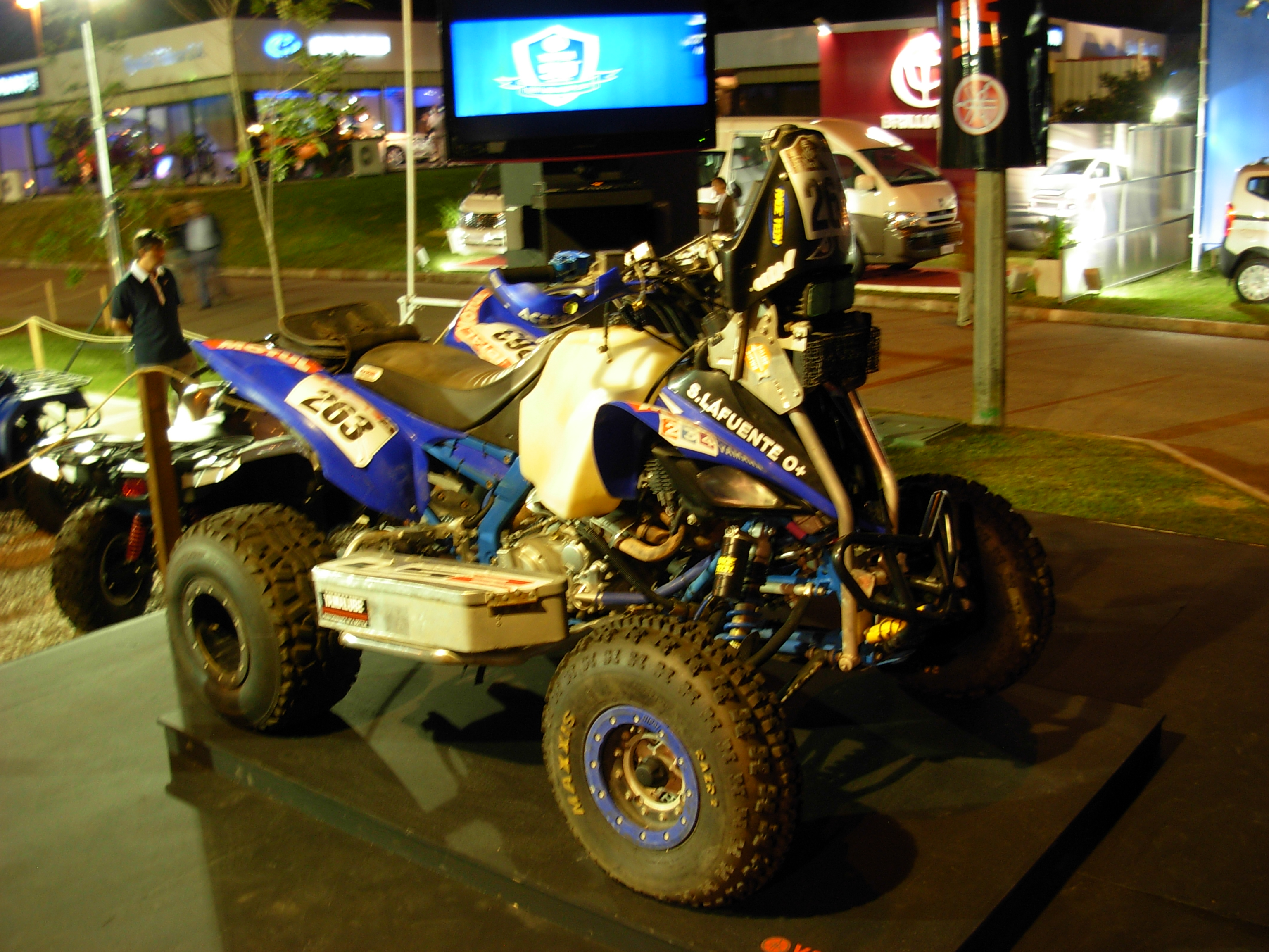 Yamaha Raptor 700 #263 ridden by Uruguayan motorcyclist Sergio "Osito" Lafuente to a 5th quad class finish at the 2012 Dakar Rally, shown at the 2012 Montevideo Motor Show.